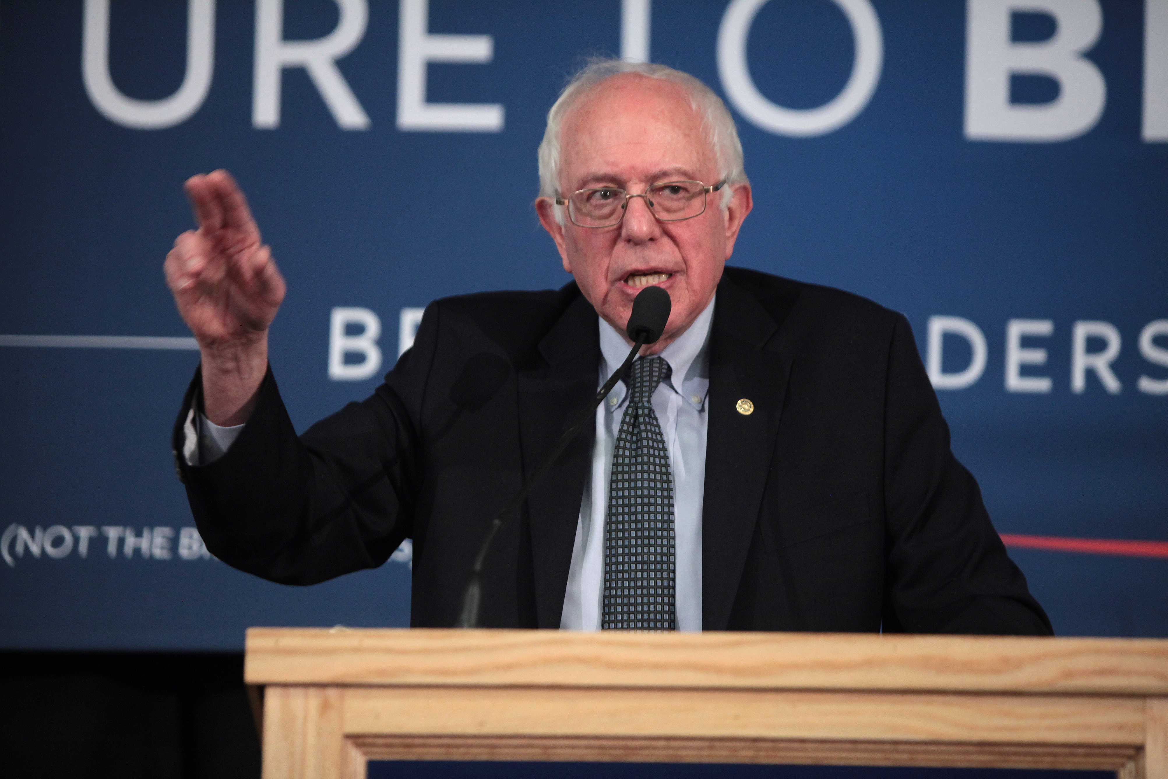 U.S. Senator Bernie Sanders speaking with supporters at a student meeting at Southern New Hampshire University in Hooksett, New Hampshire.